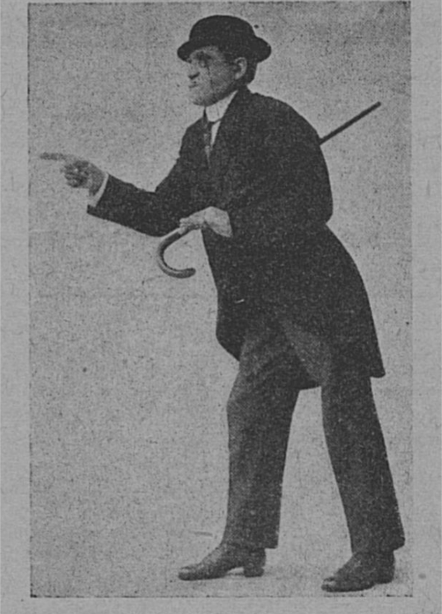 The Finnish singer and songwriter Oskar Nyström (1879-1924)